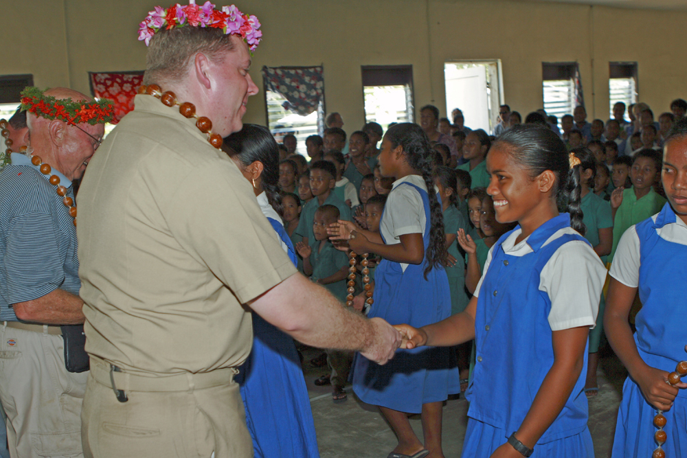 Jaluit, Marshall Islands (Oct. 12, 2006) - Commanding Officer Lt. Cmdr. Doyle Hodges USS Safeguard (ARS 50) and The International Group for Historical Aircraft Recovery (TIGHAR) representative Van Hunn greet students at Jaluit elementary school after giving presentations regarding the two World War II Douglas Torpedo Bomber (TBD) Devastators, which have remained submerged since the war. Safeguard assisted TIGHAR in a survey of the aircraft, which provided information for a potential future salvage operation. U.S. Navy photo by Navy Diver 2nd Class Morgan B. Wade (RELEASED)